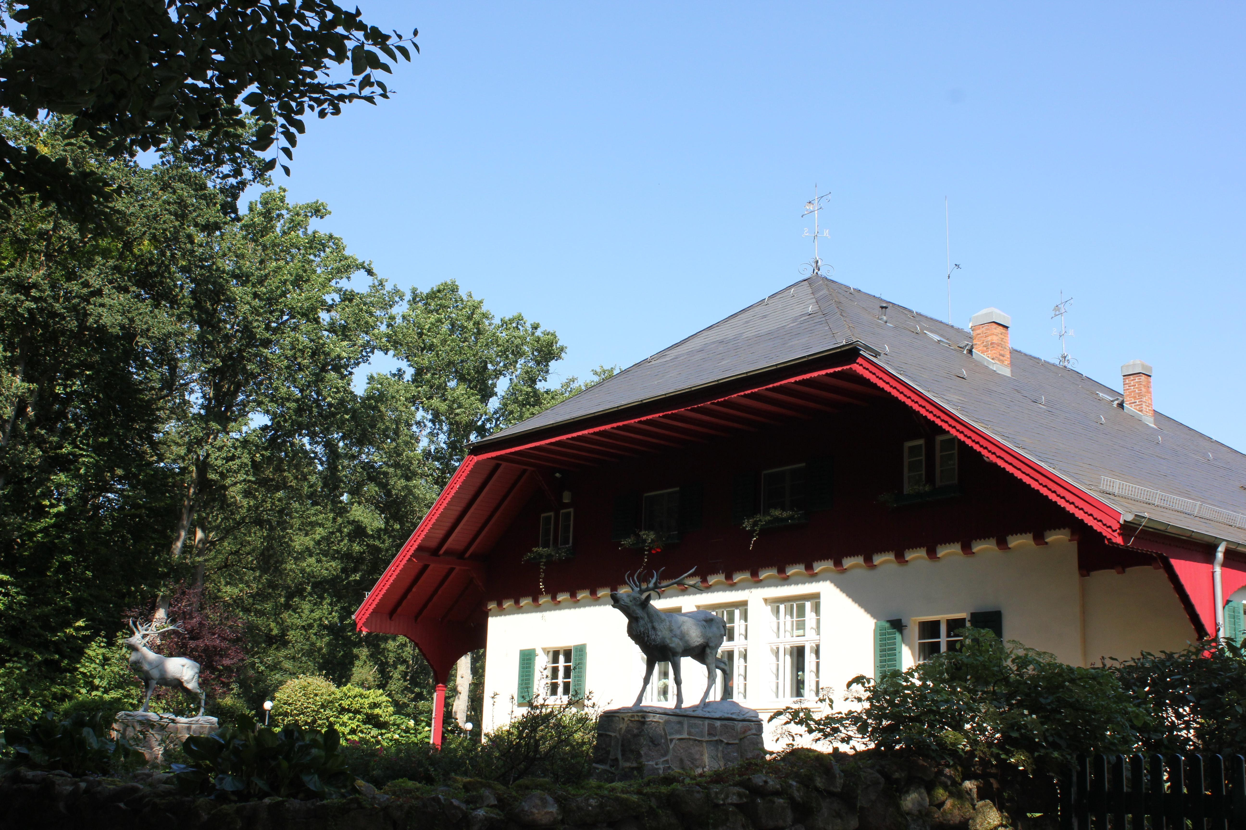 Manorhouse in Neu Damerow in Germany